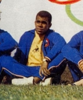 New Caledonian footballer, Marc-Kanyan Case